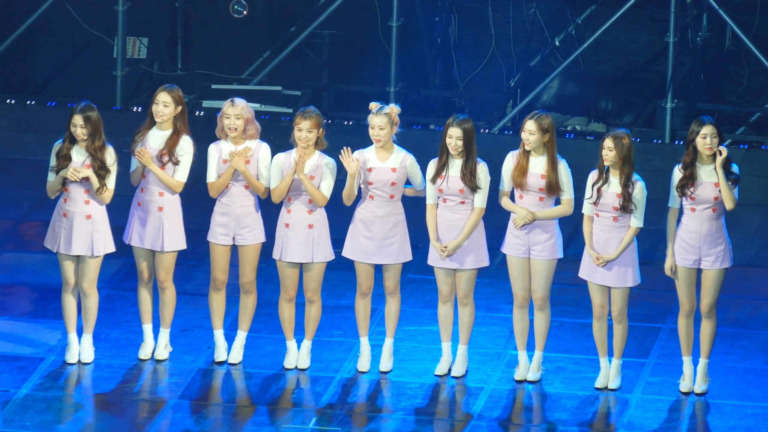 MOMOLAND's HERO CONCERT in Seoul (Jamsil-dong) on November 29, 2017